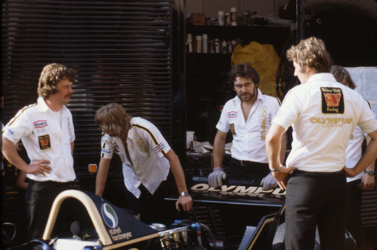 The guy on the far left is Åke Strandberg a Mechanic to the Wolf Racing team, previously Ronnie Petersons Mechanic. Second from left whose face you cant see is Vic Warren One of Wolf racings Truckies, and later became Truckie for Paul Newman Racing in the States. Next from is Nigel de Strayter Next is the late Harvey postlethwaite. The face behind is the late James Hunt. Guy on the left is not Keke Rosberg, because he was not driving with Wolf at Monaco GP 1979.